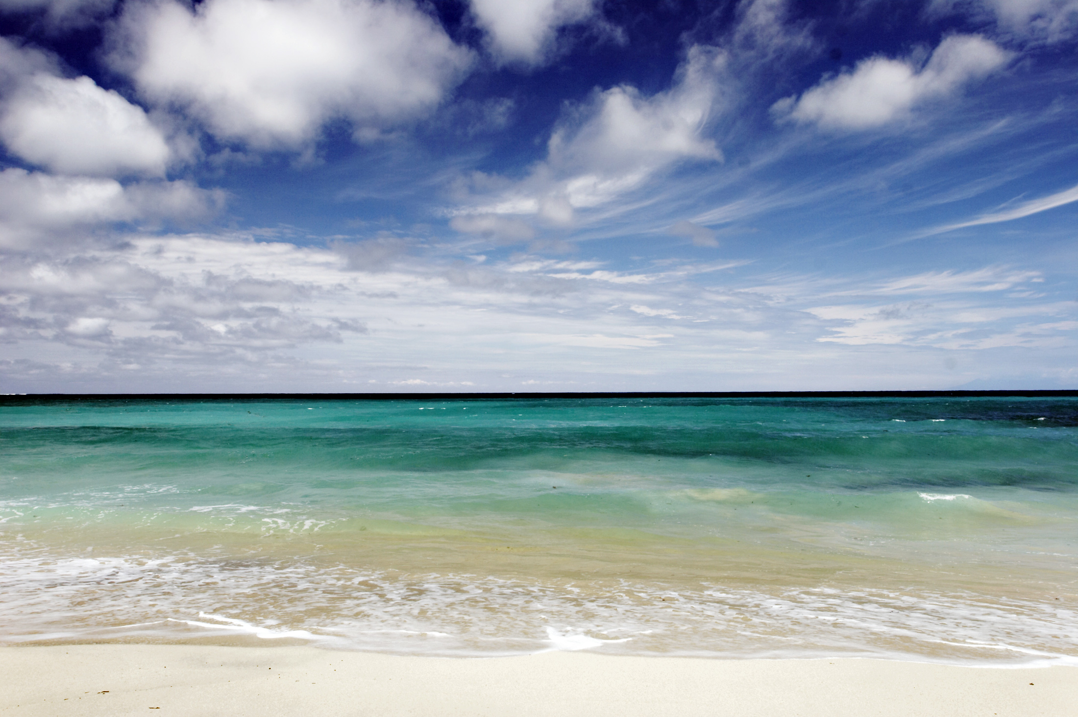 Dreamland Beach, Bali